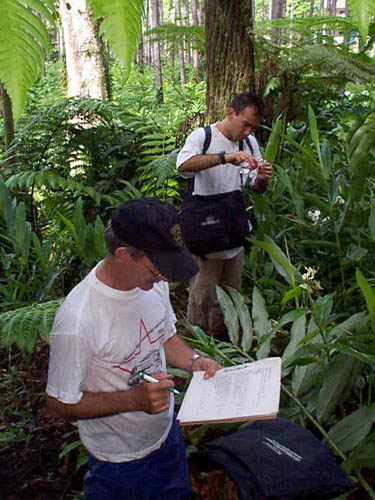 Wilder's stock, sampling Flora, Mariposa species (Hedychium sp.) in the tropical rainforest, Cuba